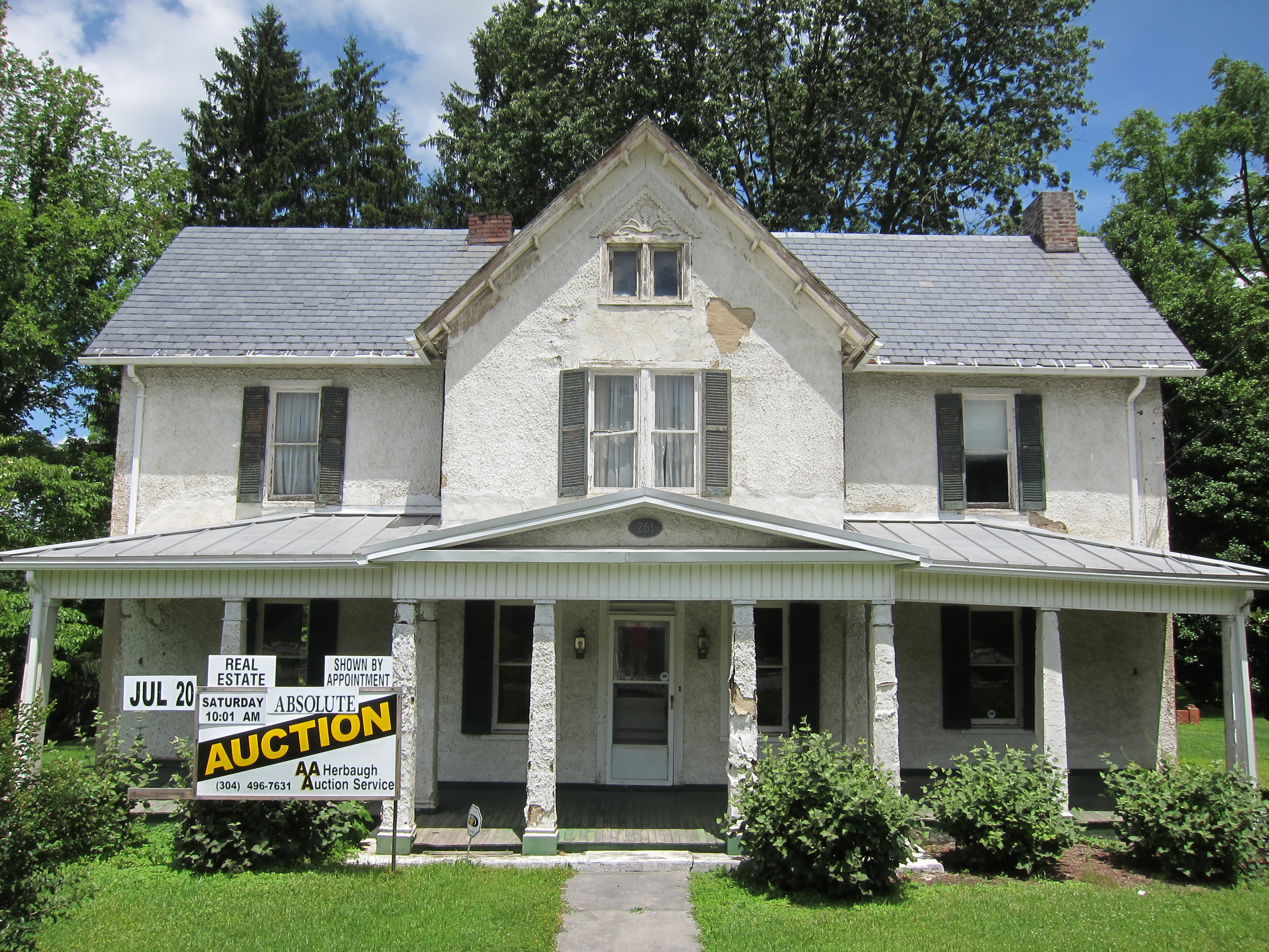 The Blue House, built in 1900, is a historic residential structure located at 261 East Main Street in Romney, West Virginia, United States. The Blue House was formerly the residence of West Virginia House Delegate John Rinehart Blue and his wife, Madeline Blue. Photographed by Justin A. Wilcox of Washington, D.C.